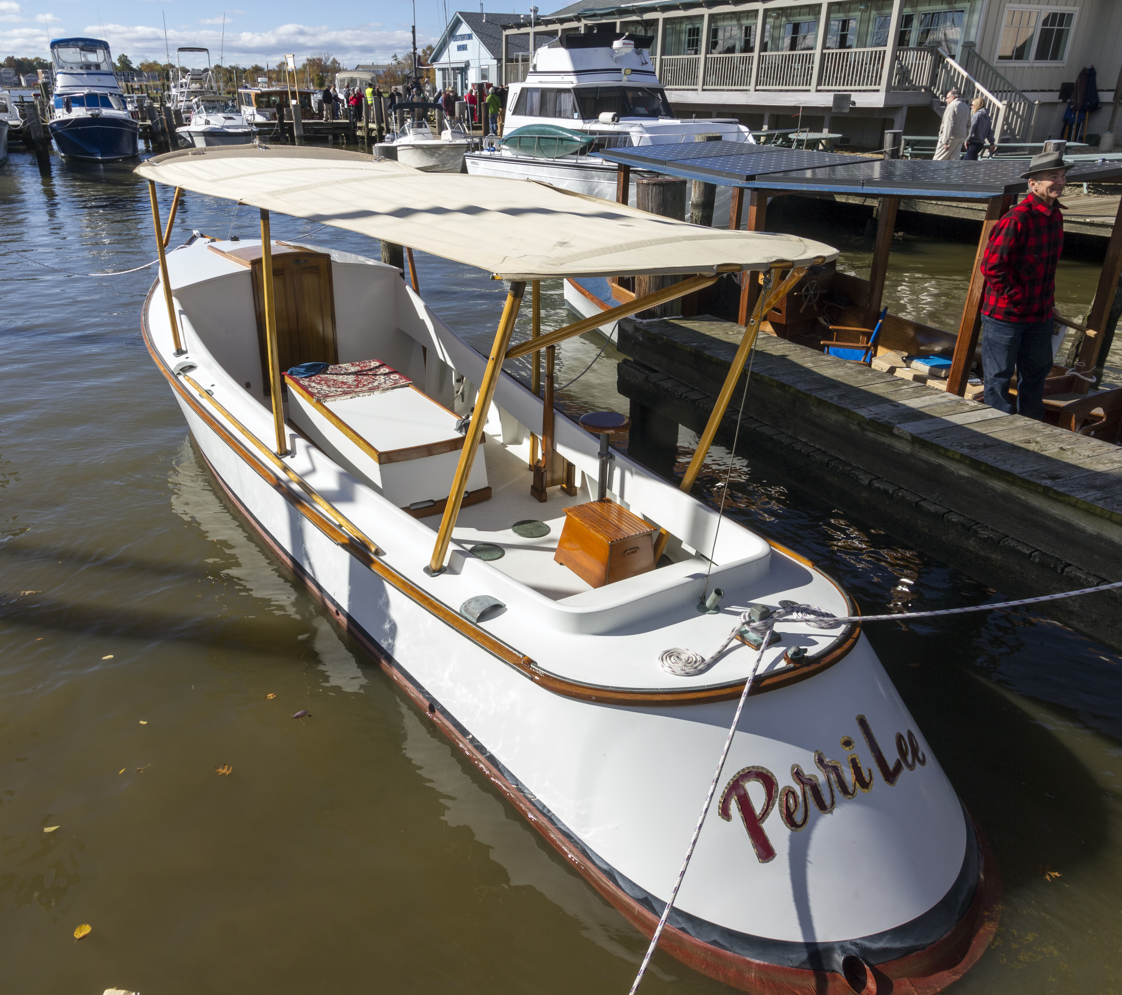 Replica draketail skiff Perri Lee at Chestertown, Maryland, USA